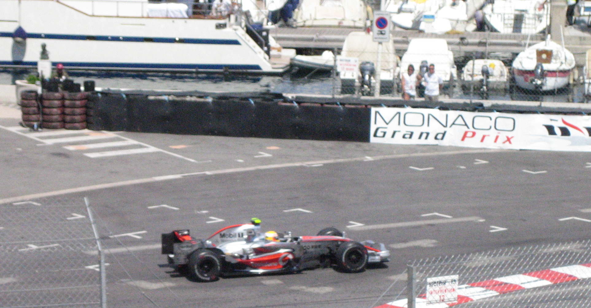 Hamilton at 2007 Monaco Grand Prix